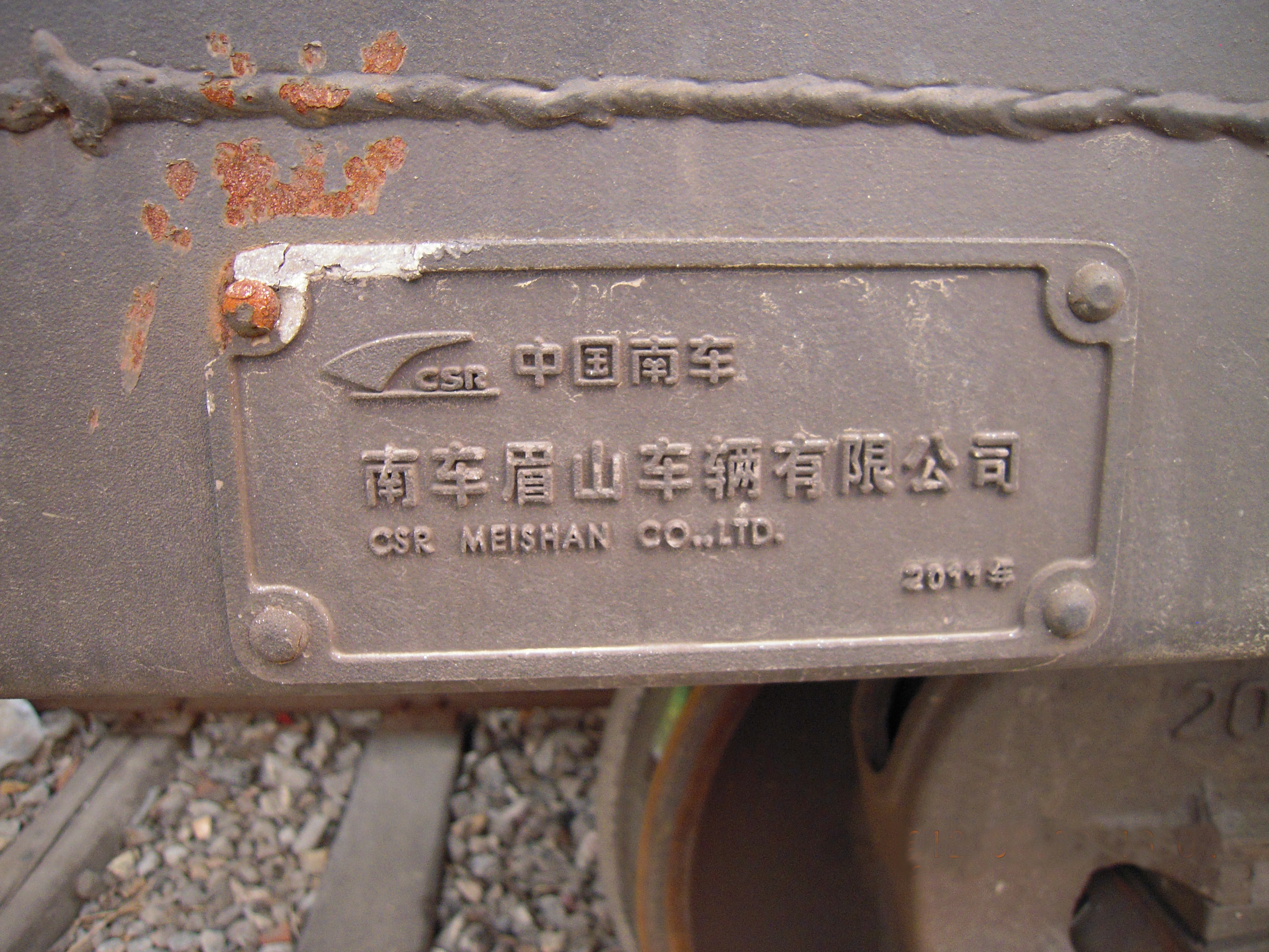 A CSR Co.,Ltd lable on the train